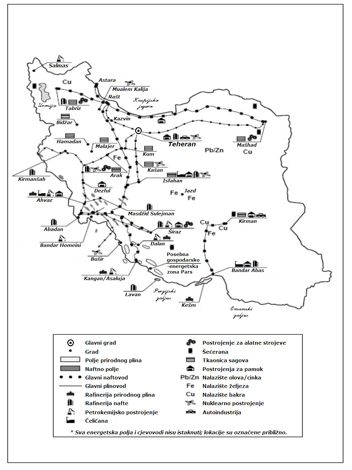 Industry and mining of Iran